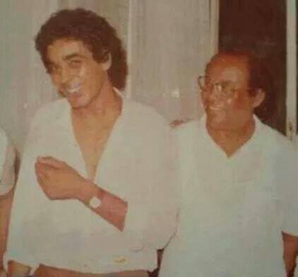 Ahmed Monib and Mohamed Mounir